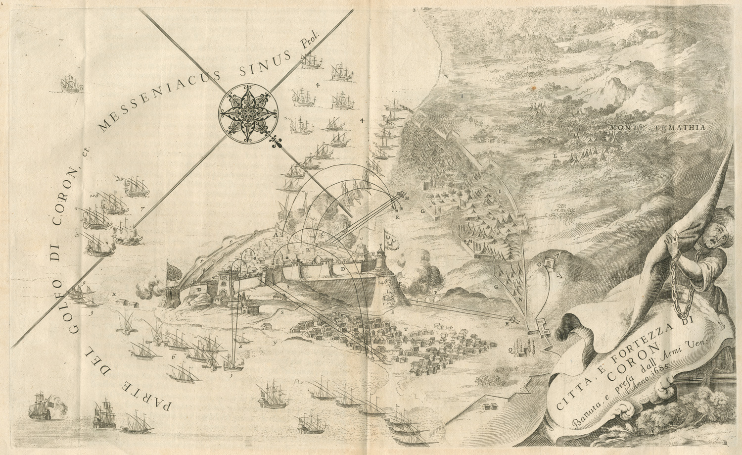 Vincenzo Coronelli - Repubblica di Venezia p. IV. Citta, Fortezze, ed altri Luoghi principali dell' Albania, Epiro e Livadia, e particolarmente i posseduti da Veneti descritti e delineati dal p. Coronelli, Venice, 1688.